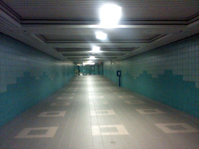 The pedestrian tunnel from Grandin LRT station in Edmonton to the Legislature building. This tunnel is part of the Edmonton Pedway system.